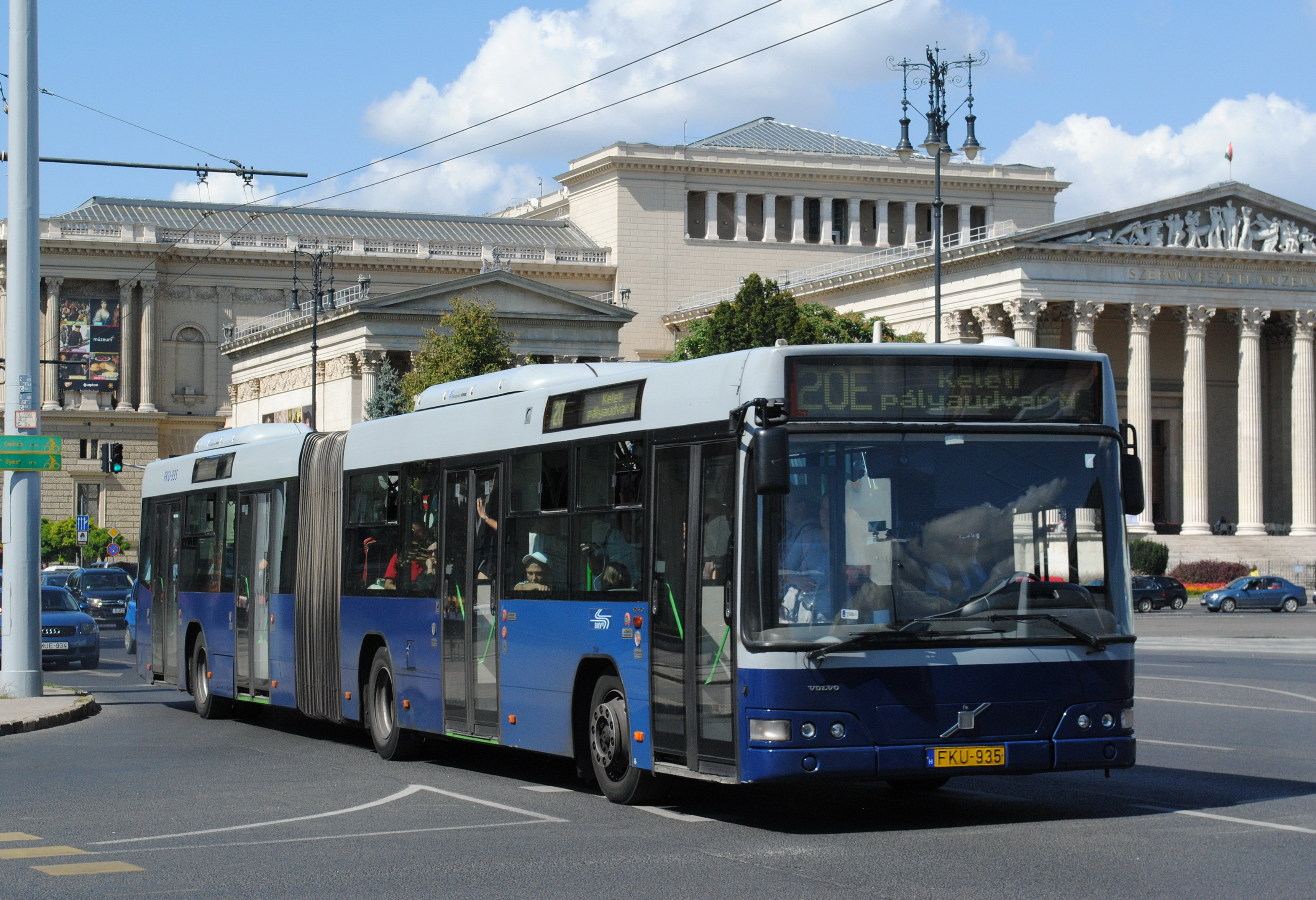 Volvo 7700A in Budapest, Hungary. Photographed n August 2014.